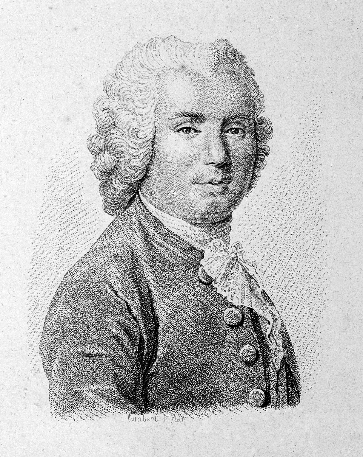 Portrait of Theophile Bordeu, vignette by Lambert Iconographic Collections Keywords: Theophile Bordeu; H. Tardieu